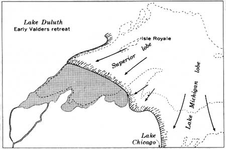 From...